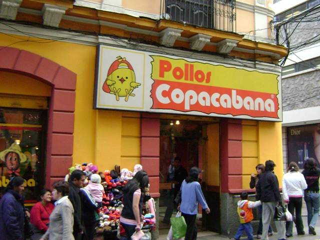 Pollos Copacabana, one of the local fast food restaurants in La Paz, La Paz (Bolivia).